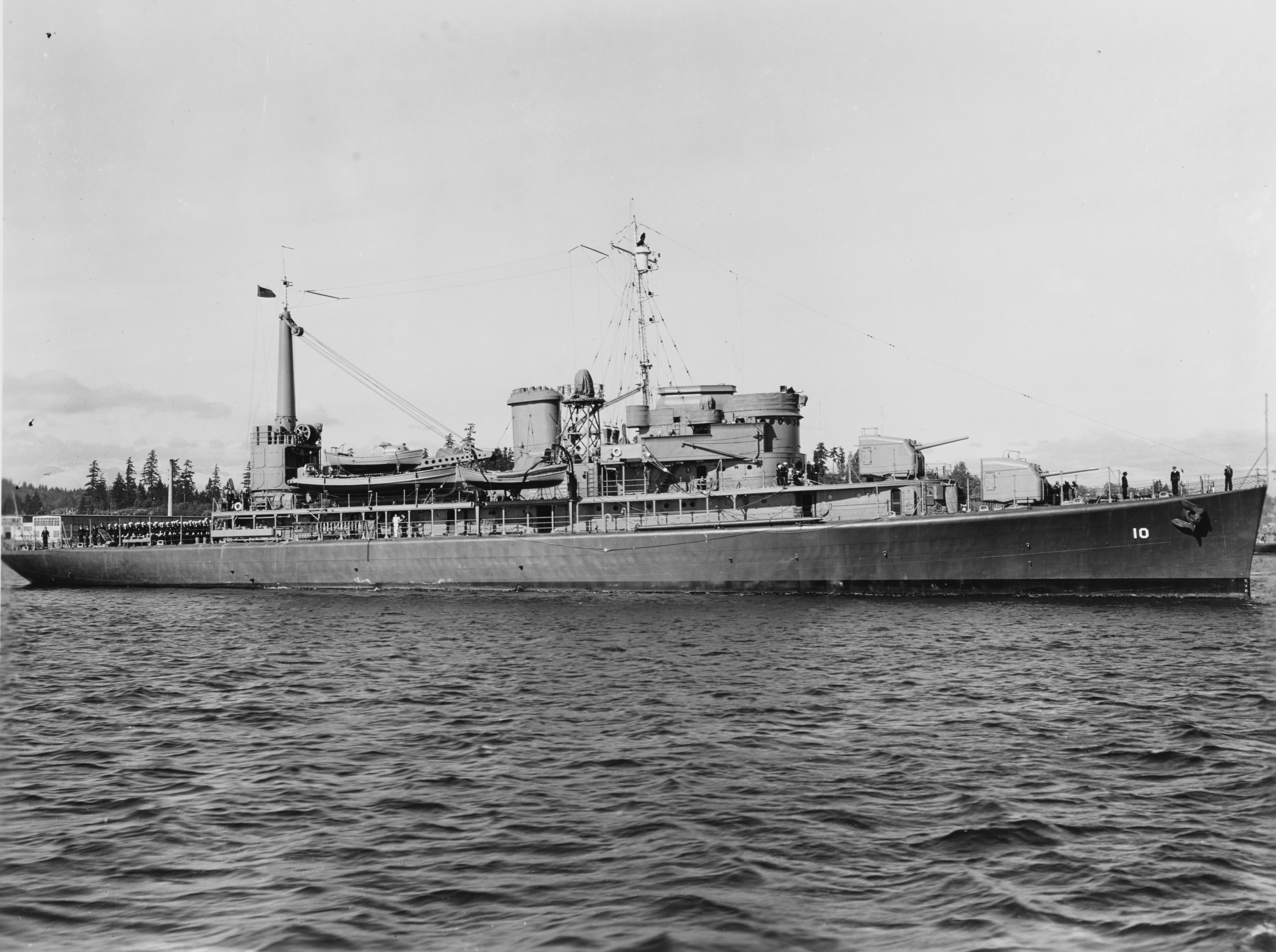 In Puget Sound, Washington, on 14 October 1941. She is in her original configuration with two 5/38 guns forward and a large seaplane-handling crane aft. Photograph from the Bureau of Ships Collection in the U.S. National Archives.